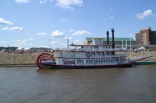 The Spirit of Peoria that I took in June of 2004 during the Grand Excursion. I took this photo from the Anson Northrup, another boat that was participating in the Grand Excursion. The boat is docked at Dubuque. Behind the boat is the Dubuque riverfront.